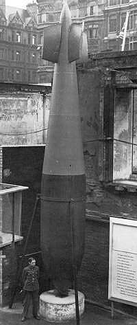 Copied from See also Image:British Grand Slam bomb.jpg